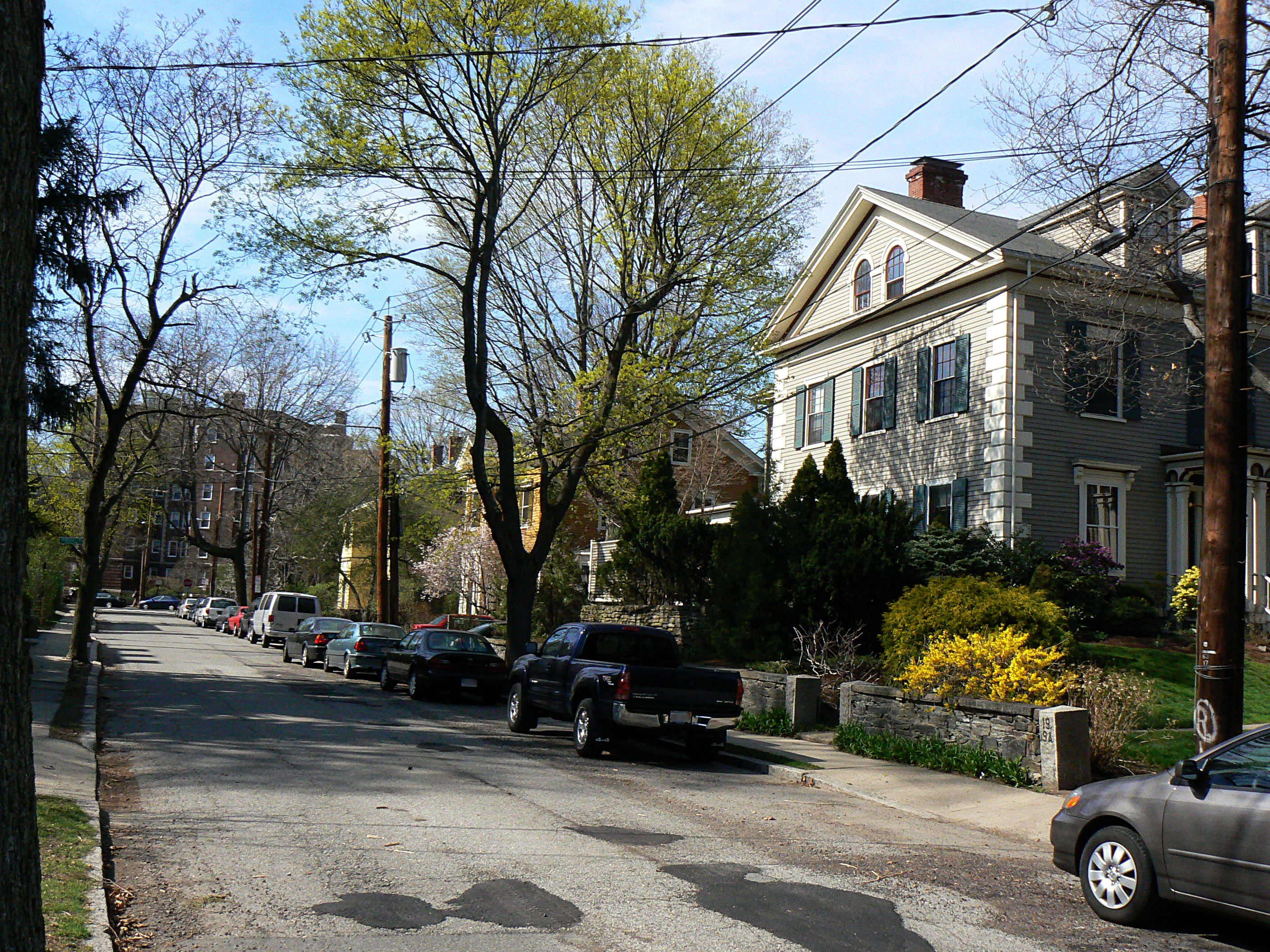 A photograph of Berkeley Street in the Berkeley Street Historic District of Cambridge, Massachusetts.